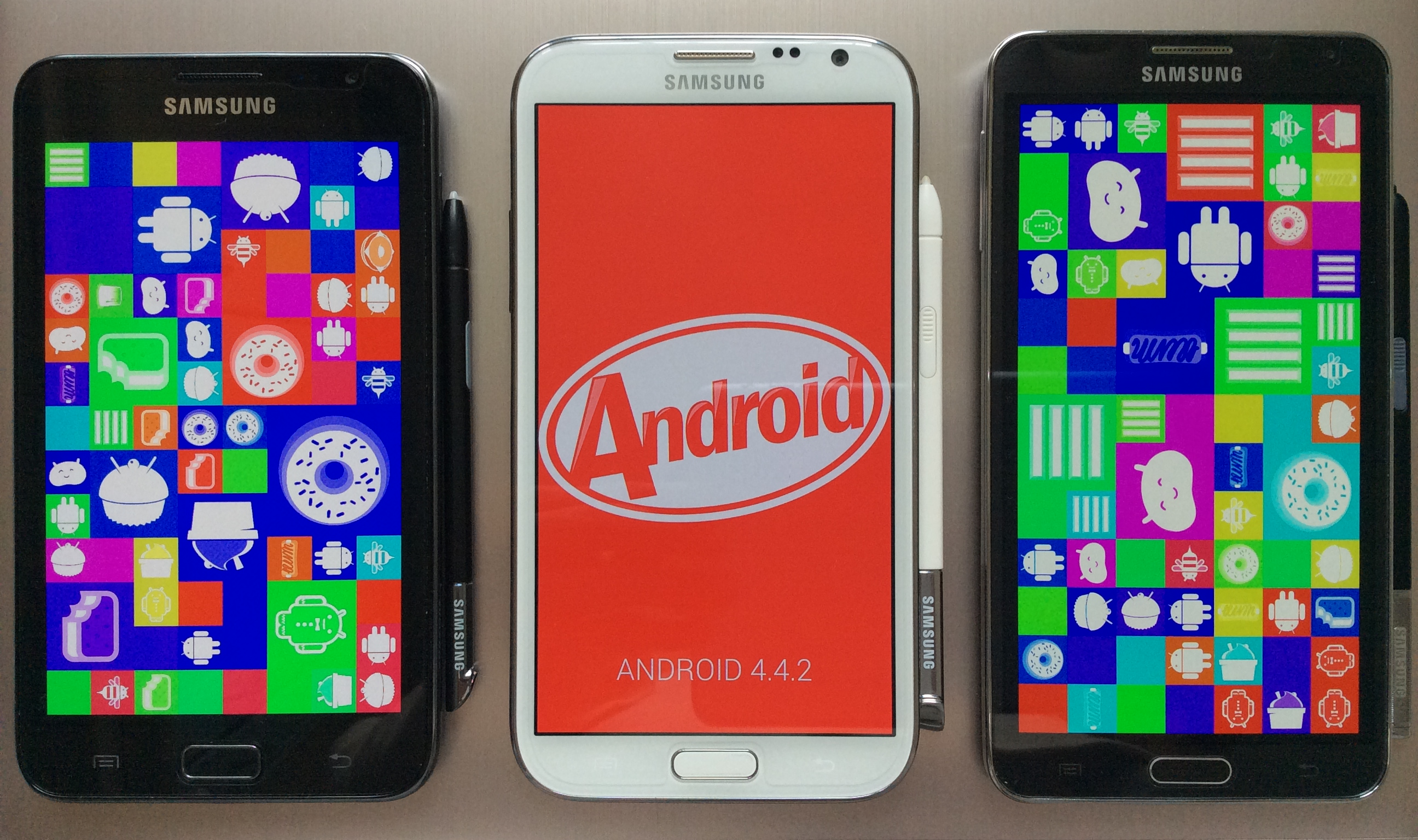 Samsung Galaxy Note (Original, II, and 3) Android smartphones (Android 4.4 kitkat)